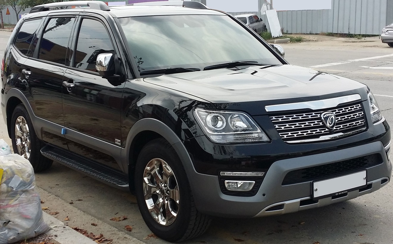 Kia Mohave